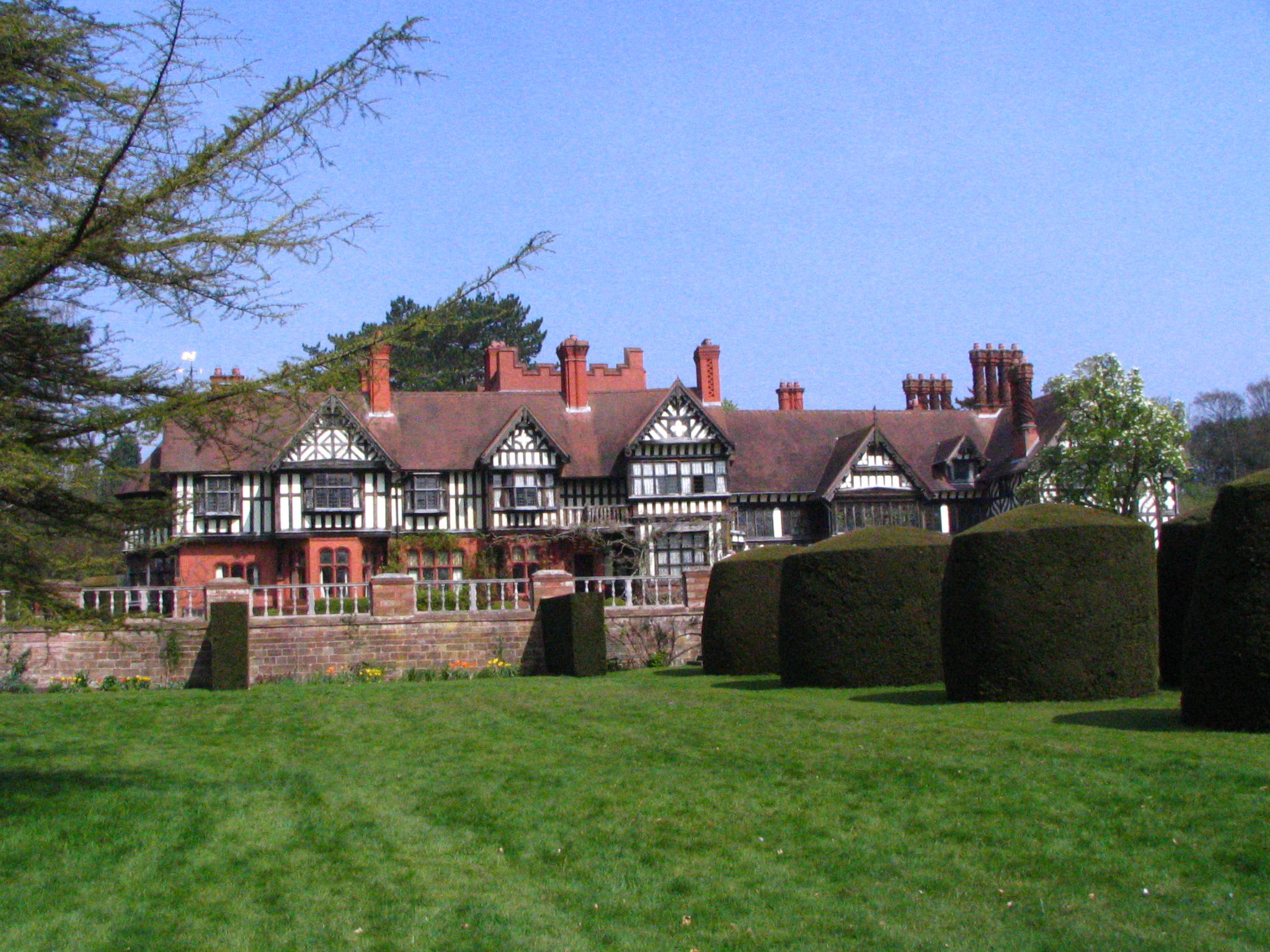 Built in the 19th century by the Mander Family influenced by the Arts and Crafts Movement. A National Trust Property. The first phase of building was completed in 1887, the second phase in 1893.